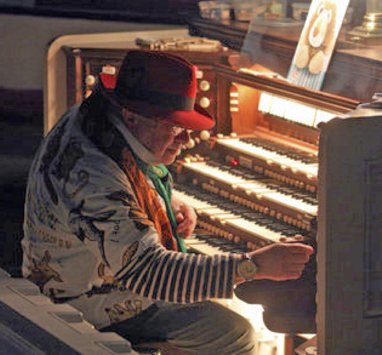 Charlemagne Palestine preparing the Aeolian-Skinner organ for a concert at Plymouth Church in Brooklyn Heights, March 6, 2014.